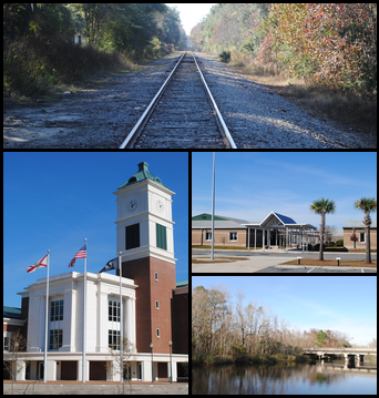 A collection of photos I took around Yulee, Florida